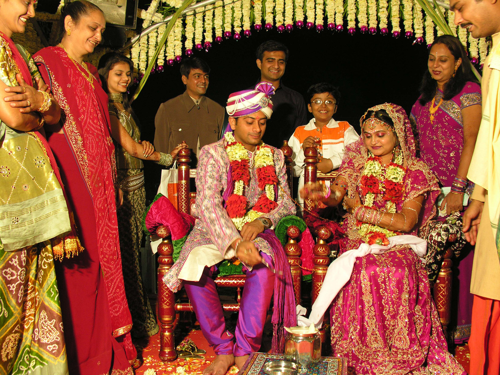 Hindu wedding